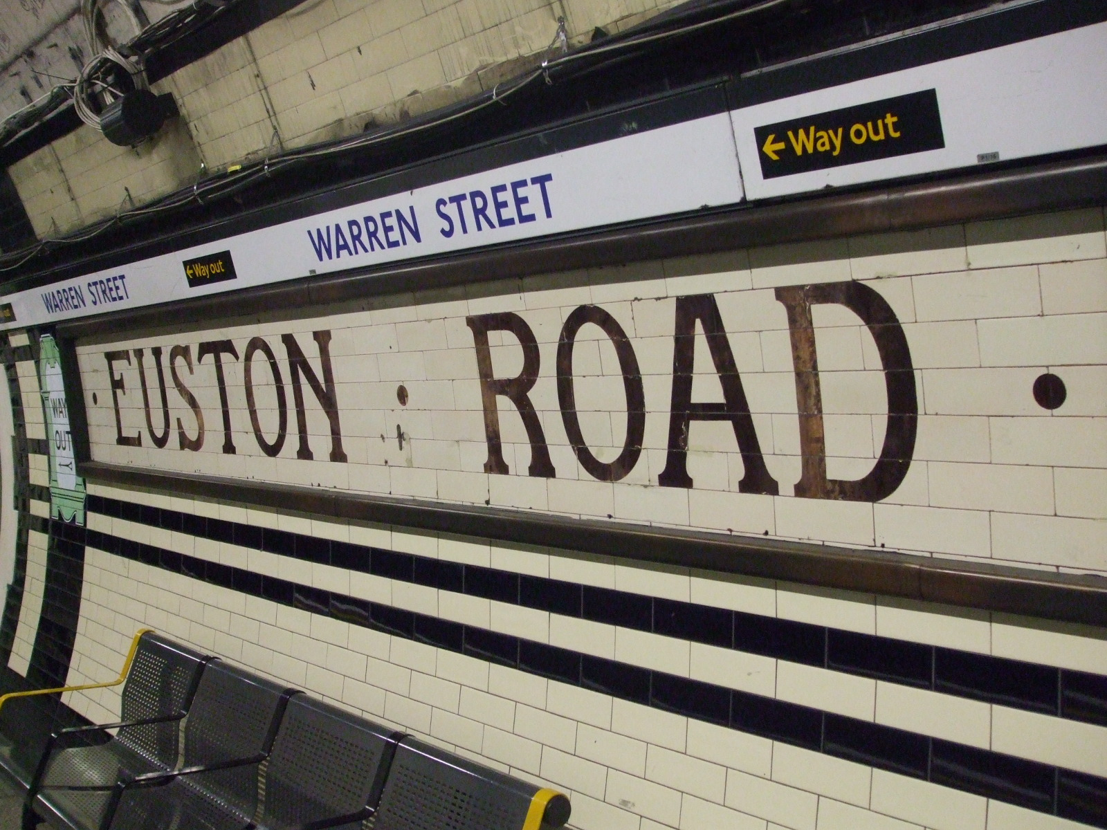 Tiling revealing the previous name of Warren Street tube station, Euston Road, on Northern line southbound platform, undergoing refurbishment.